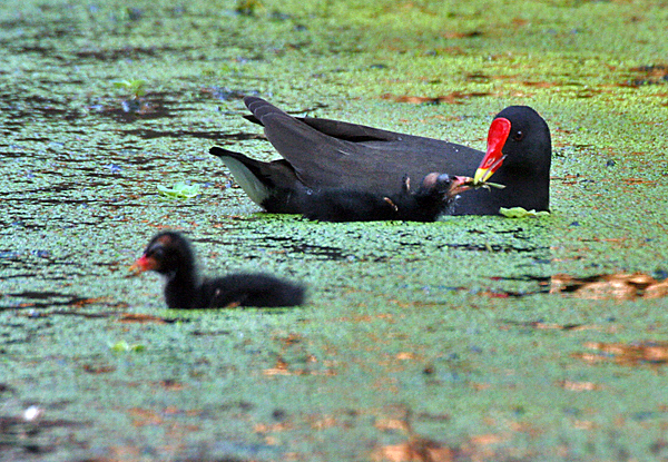 Common Moorhen (Gallinula chloropus) in Kolkata, West Bengal, India.